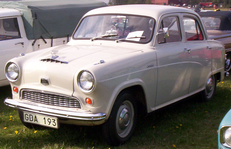 Austin A40 4-Door Sedan 1956